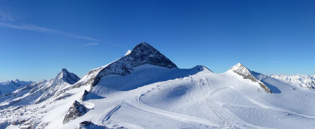 Olperer (3476 m) seen from northeast (from Gefrorene Wand, 3288 m)